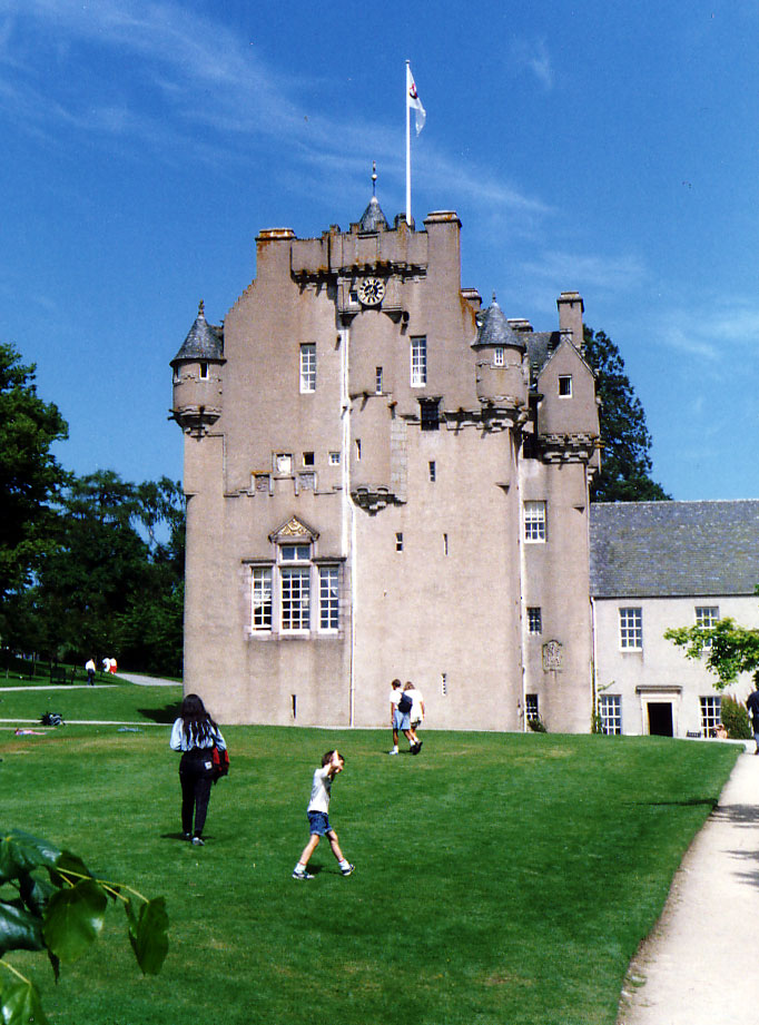 Crathes Castle 1991, photograph taken by User:Dave souza